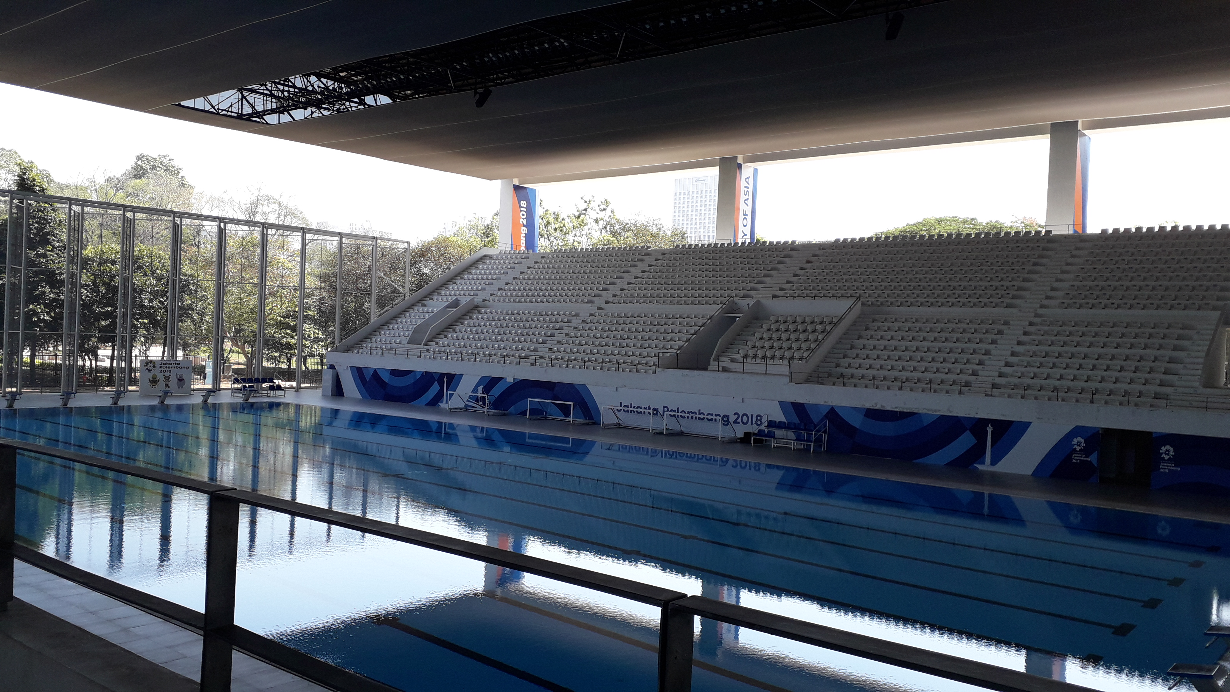 Aquatic Center, Asian Games 2018 venue for Aquatics located in Gelora Bung Karno Sport Complex in Senayan, Central Jakarta.